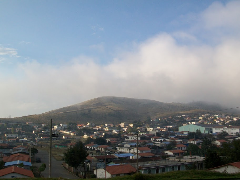 Looking northwest over the Guatemalan town of Nueva Santa Catarina Ixtahuacan.